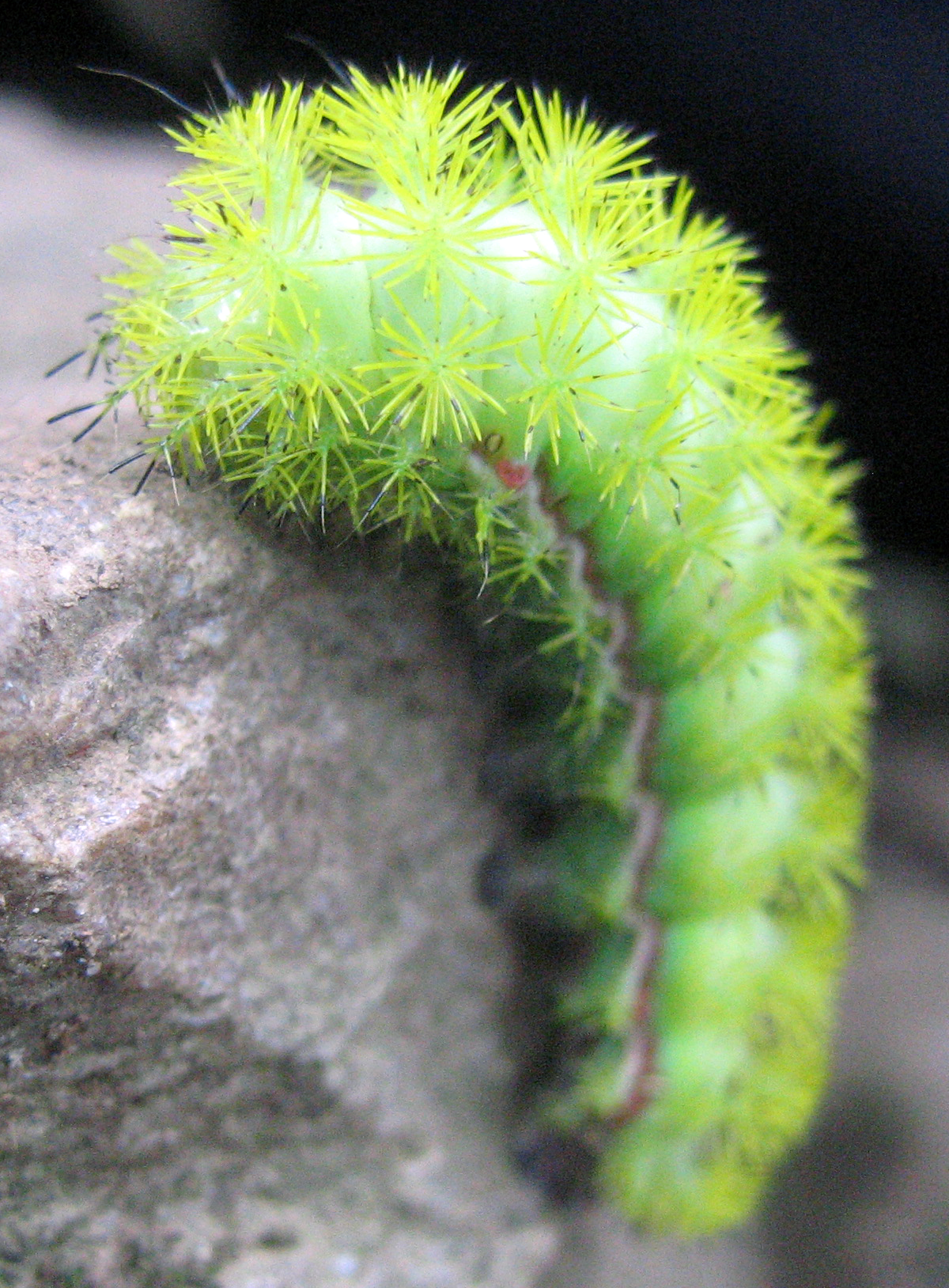 Io moth (Automeris io) caterpillar.